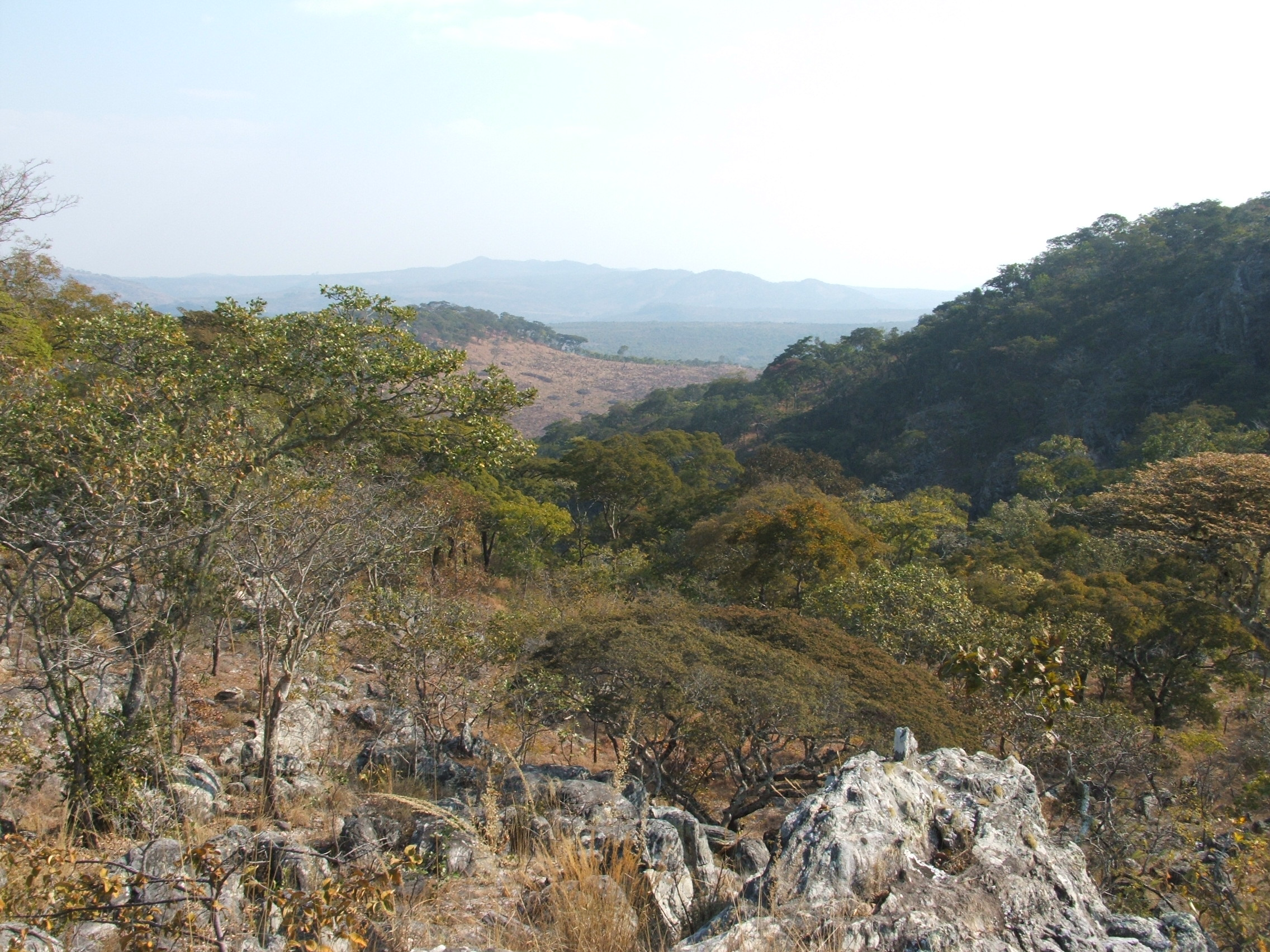 View of "Large Circle" chitemene on far hillside at Kundalila Falls, approximately 45km east of Serenje Boma, Serenje District, Central Province, Zambia.